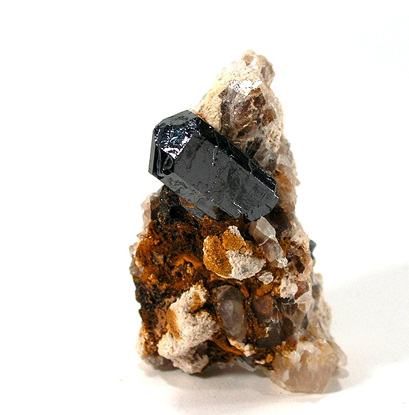 Quartz, Rutile Locality: Kapudzyk, Azerbaijan Size: miniature, 5 x 3.2 x 3.5 cm Rutile with Quartz This is an approximately 1-inch, 3-dimensional, lustrous, super-sharp rutile crystal perched on matrix! It is a real prize for the size, because of the crystal quality and its balance on matrix. These came out in the late 90s in one small batch, and seem to have gone the way of the dodo since. Haven't seen one this nice in awhile. 5 x 3.2 x 3.5 cm